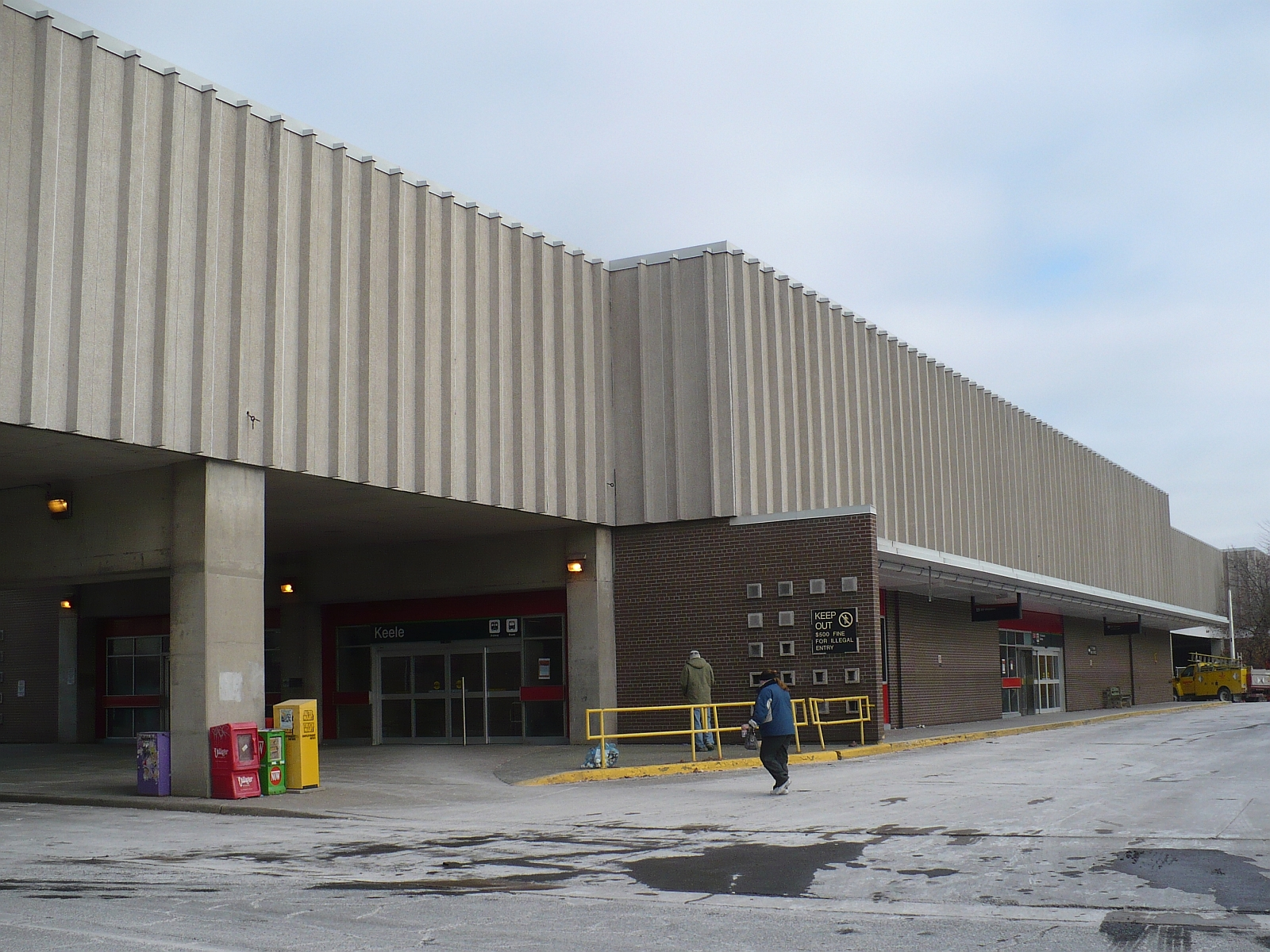 Keele subway station in Toronto, main (Keele Street) entrance and bus loop on a bleak December day